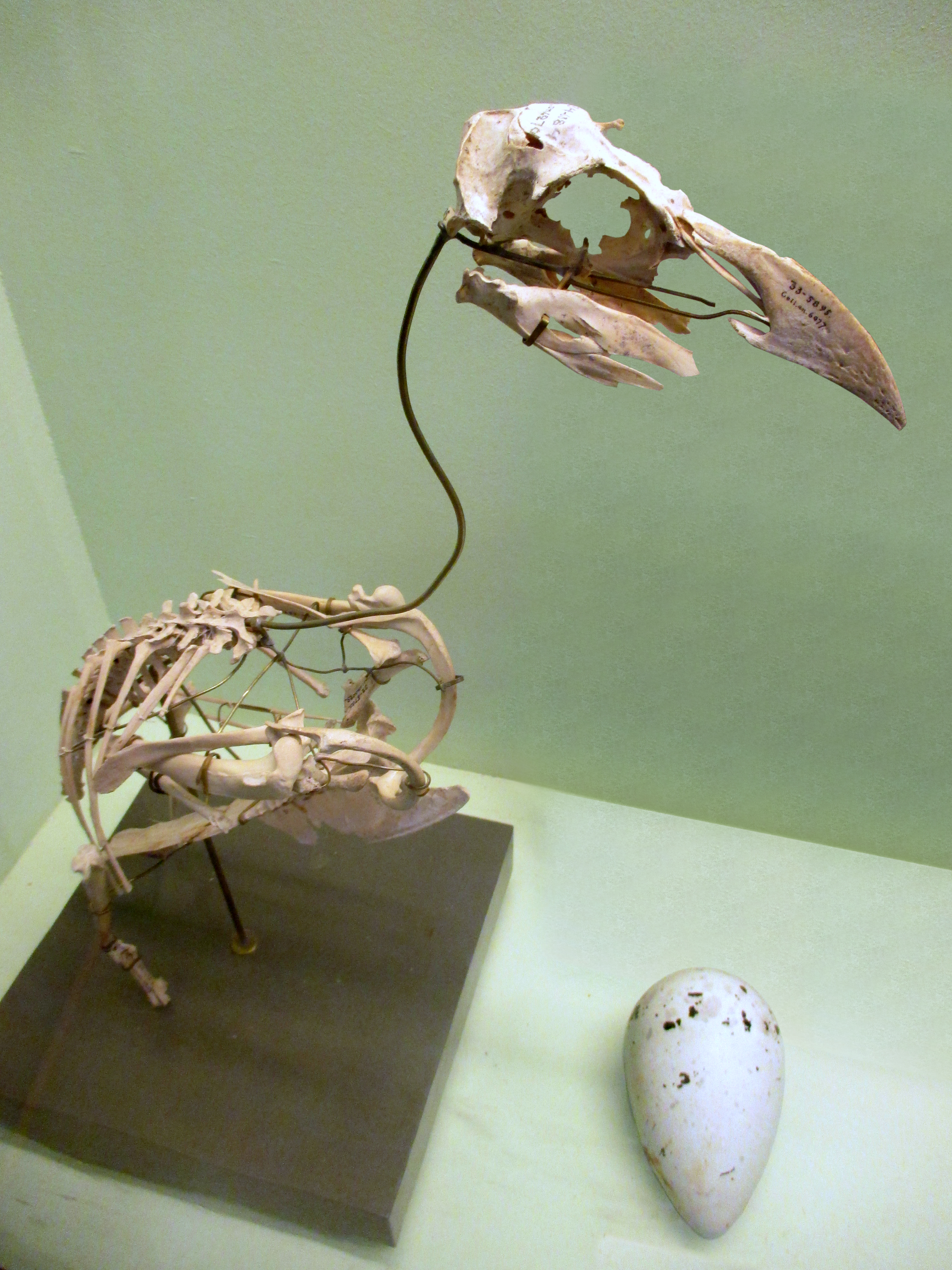 Skeleton of Great auk (Pinguinus impennis) at Göteborgs Naturhistoriska Museum, Gothenburg, Sweden. The bones are from two different sites in Bohuslän.